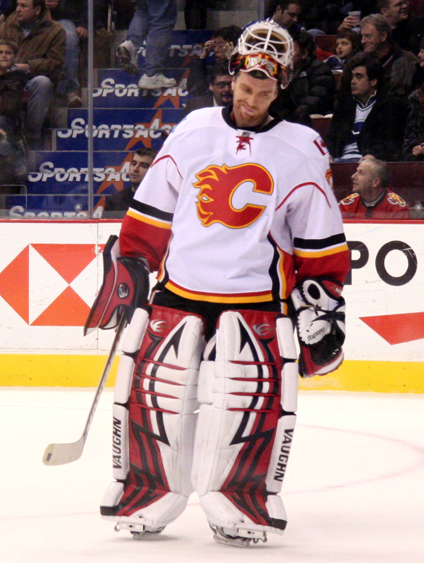 Calgary Flames goalie Miika Kiprusoff in a game against the Vancouver Canucks in 2007.